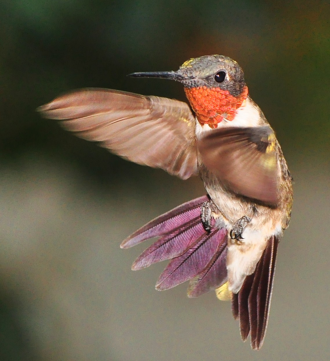 A male Ruby-throated Hummingbird in flight.